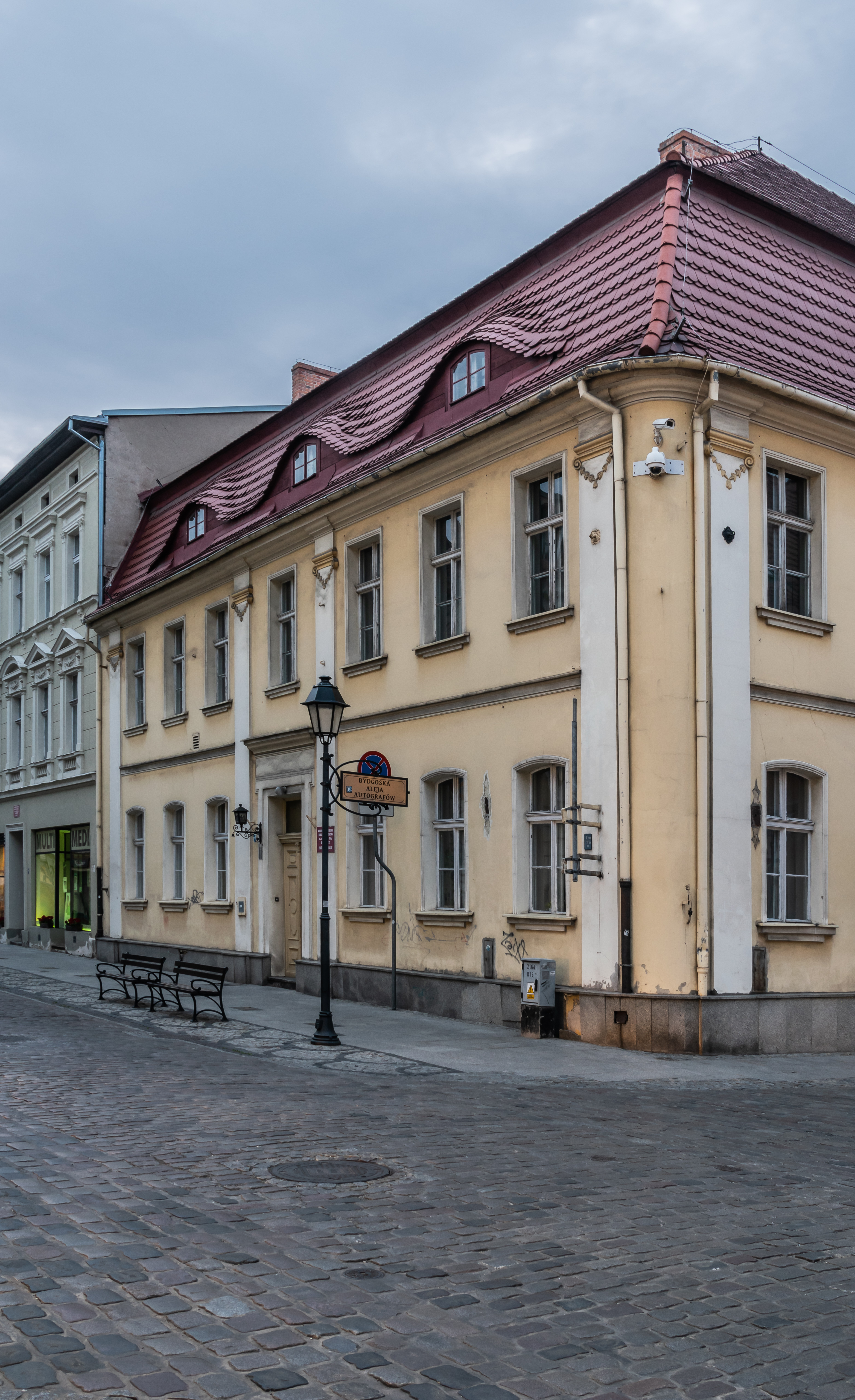 Building at Długa 41 in Bydgoszcz, Kuyavian-Pomeranian Voivodeship, Poland